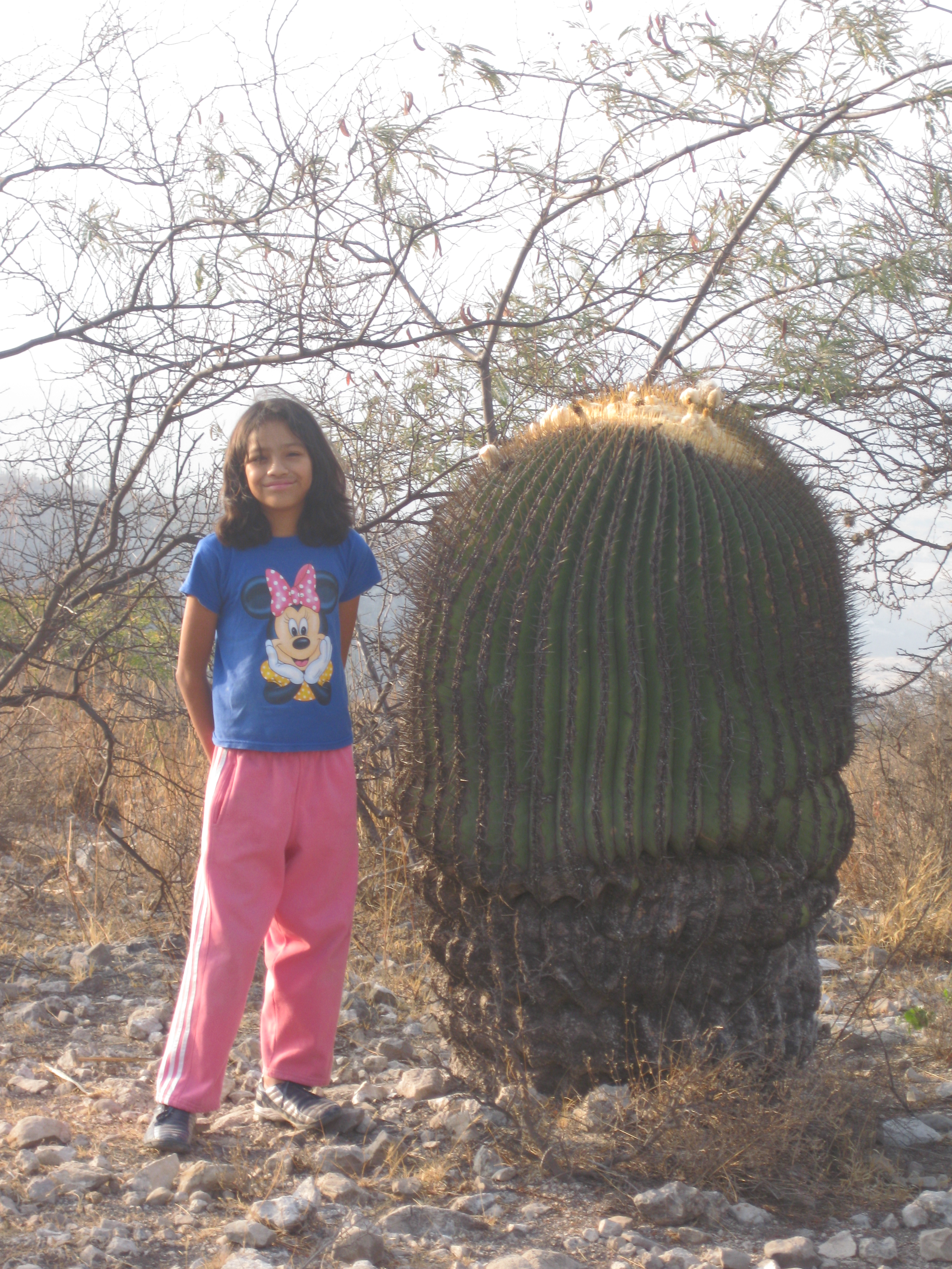 biznaga